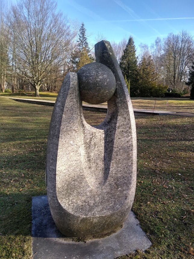 Gianfranco Mancini Belgien "Protection" Steine Ohne Grenzen 2004